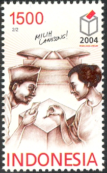 Stamps of Indonesia